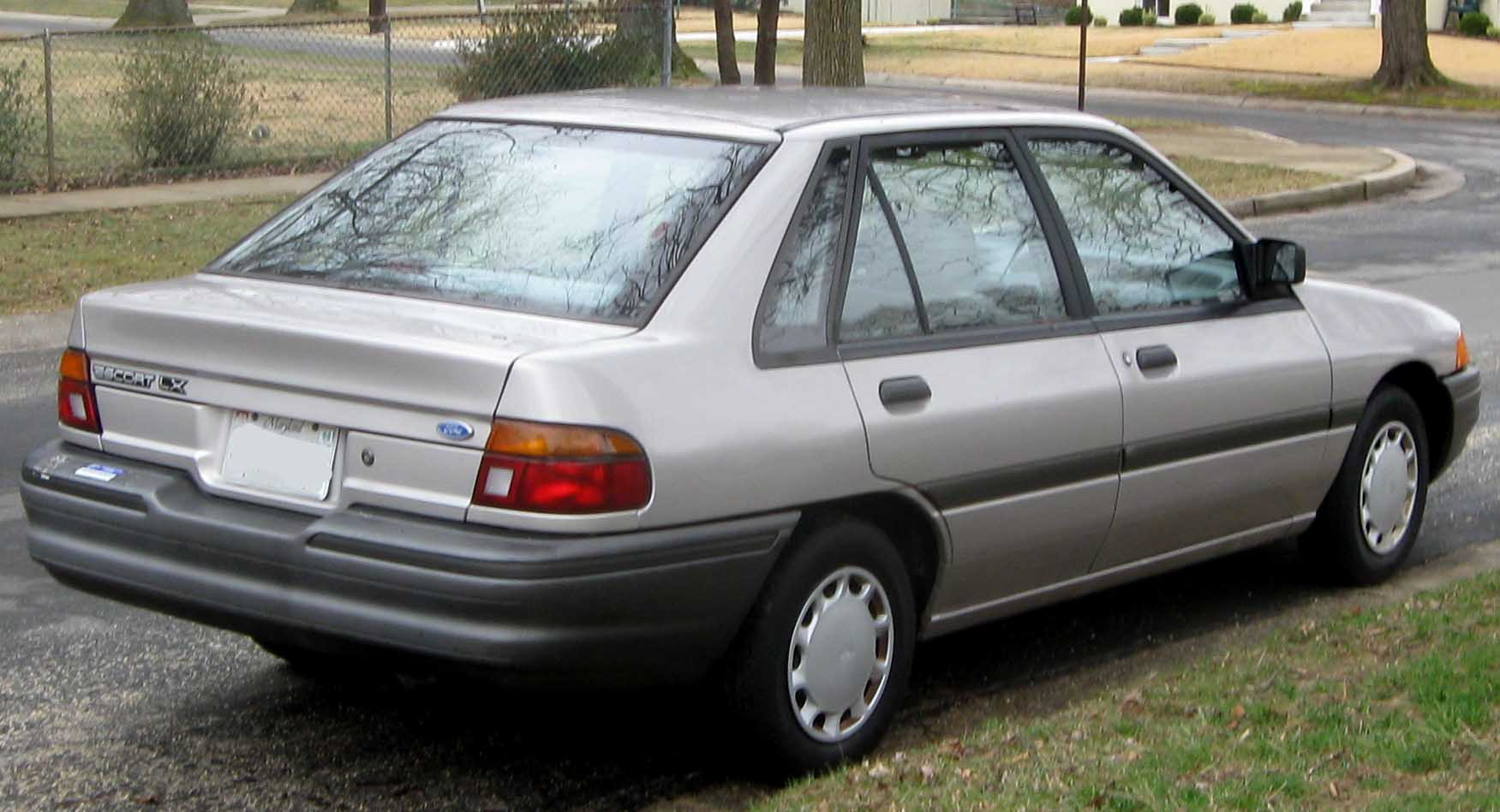 1991-1994 Ford Escort photographed in Rockville, Maryland, USA.